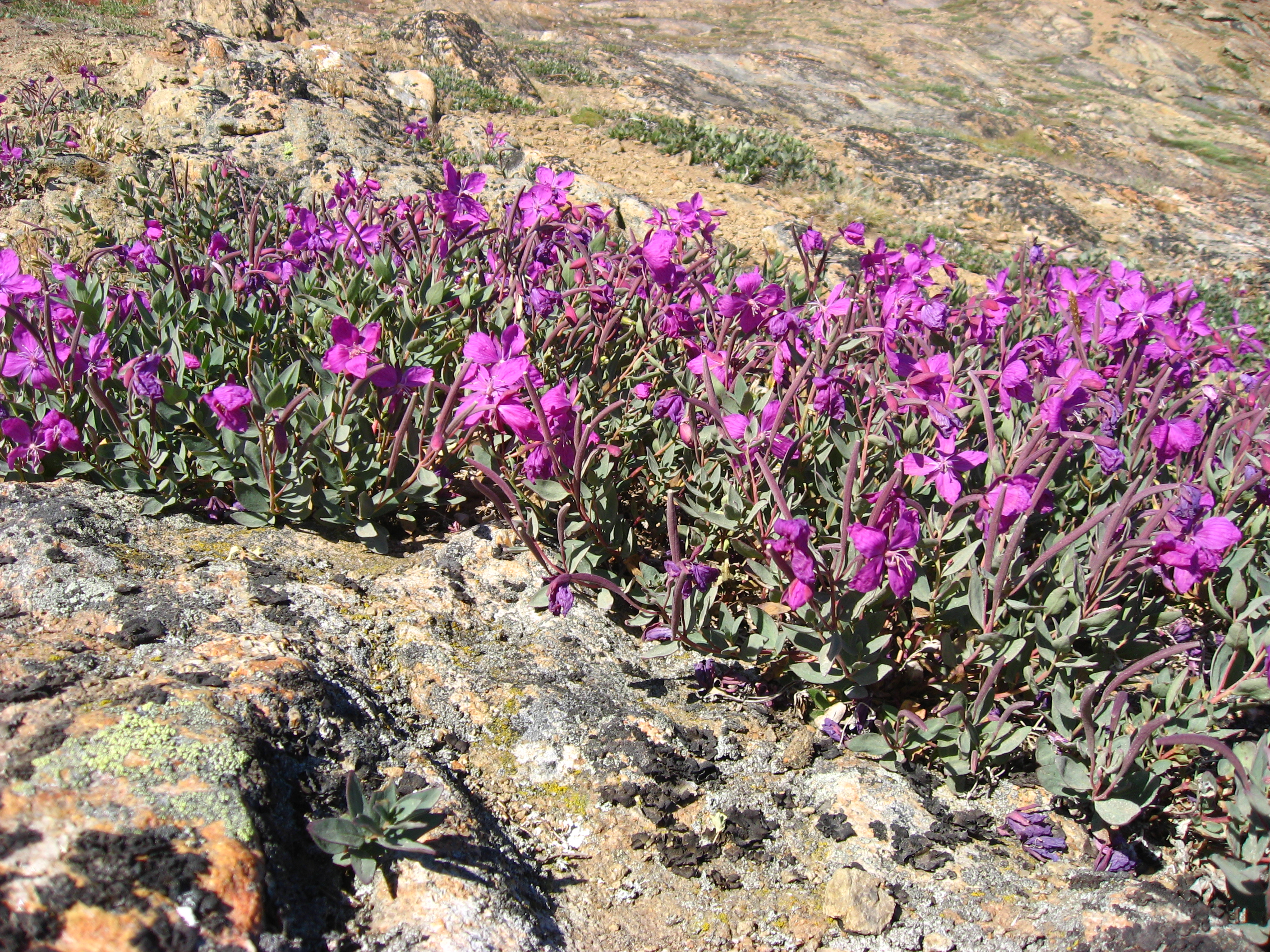 Dwarf fireweed (Chamerion latifolium) photographed a little north-east of the cemetary in Upernavik, Greenland.This flower is the national flower of Greenland and it is called niviarsiak in Greenlandic, which means something like "little girl".